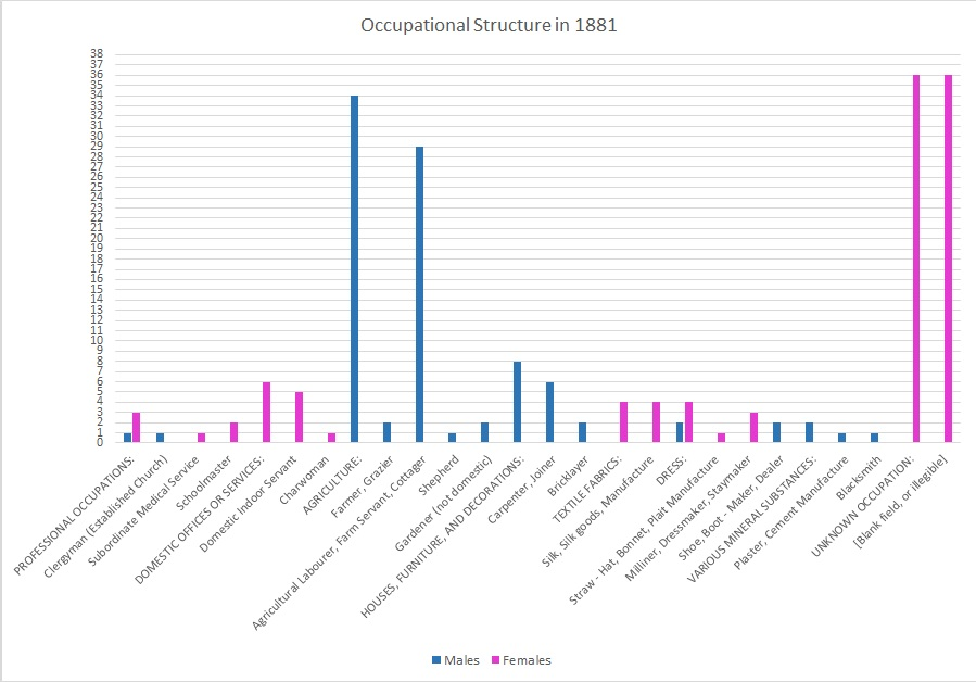 A graphical representation of the statistics for the occupational structure of Twinstead in 1881